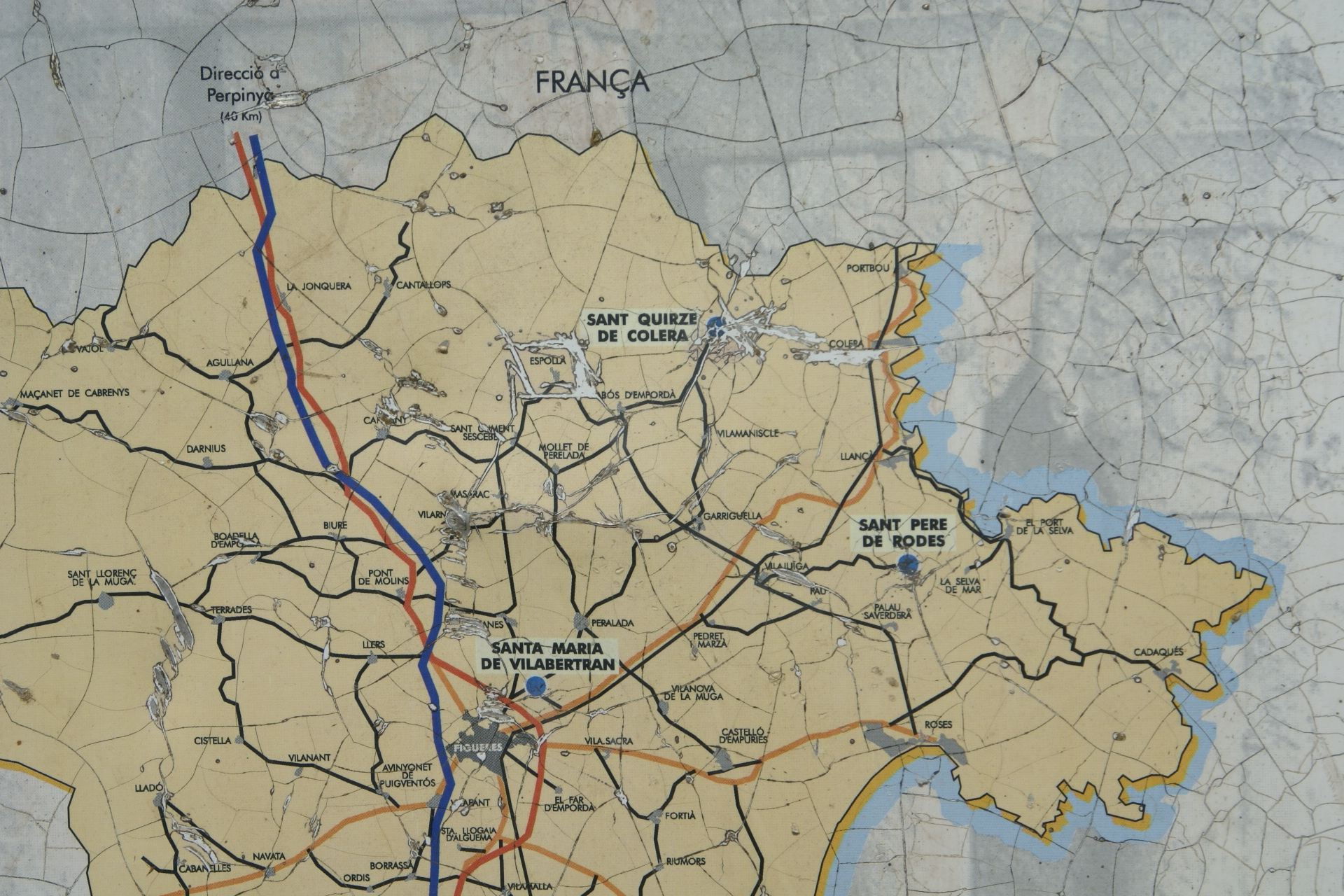 Mapa de localització a l'Alt Empordà